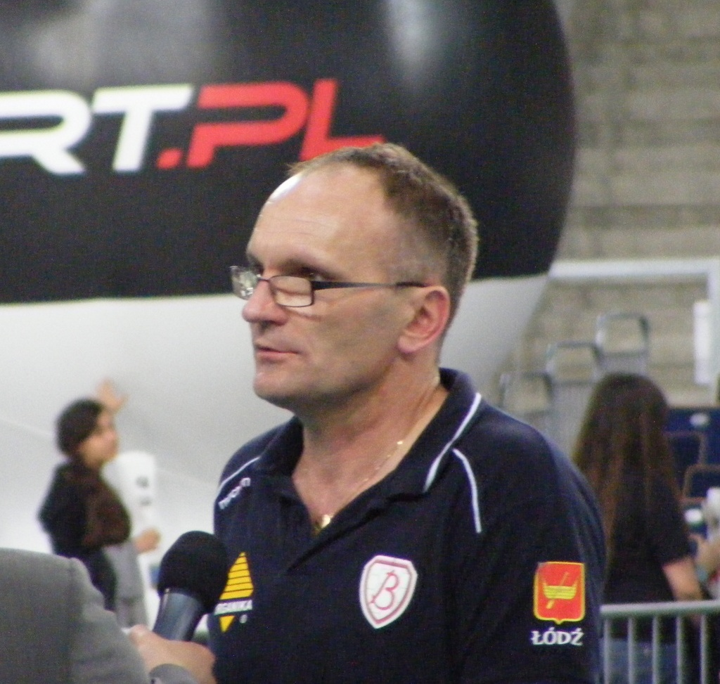 Wieslaw Popik, polish volleyball coach